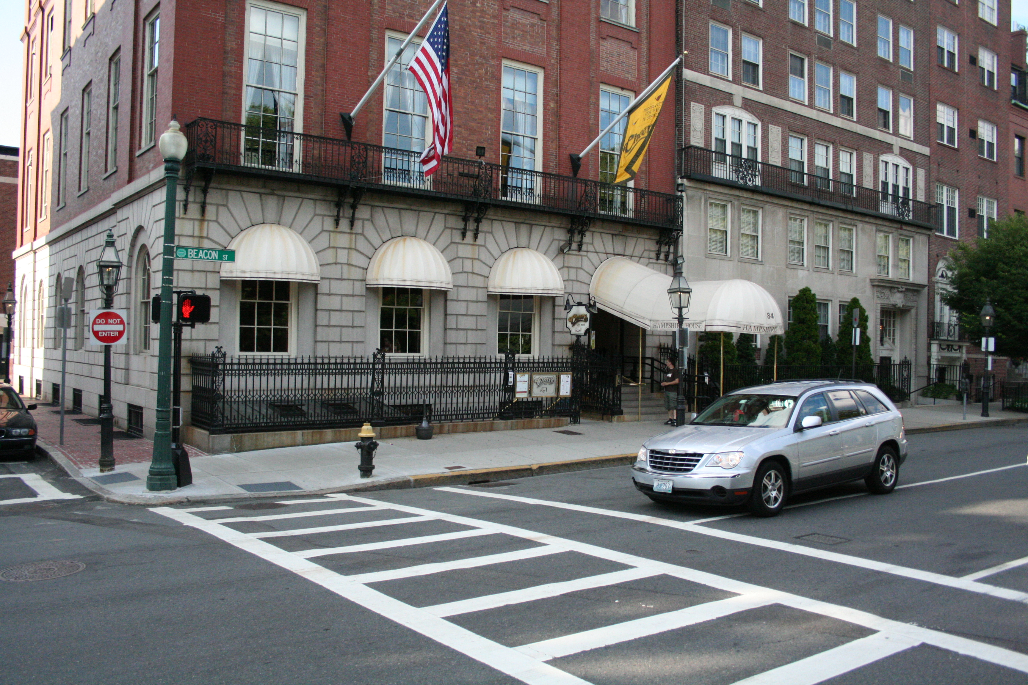 I took this photo on a Canon Digital Rebel camera two days ago in Boston. Higher quality than the picture from 2005. I am allowing this photograph to become available to the public when I post it to wikipedia.